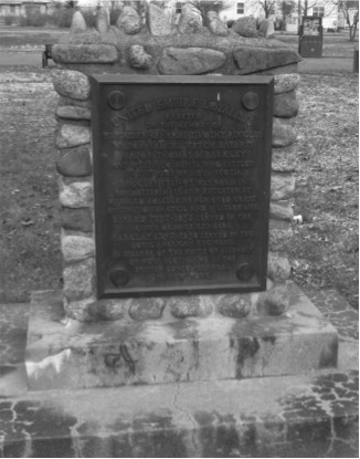 Inscription on Plaque: United Empire Loyalists: Erected to the memory of Brigadier General Timothy Ruggles, Major Samuel Vetch Bayard, Major Thomas H. Barclay and other Loyalists who settled in this part of Nova Scotia. Ruggles, 1711-1830, was born in Rochester, Mass. and educated at Harvard College. He achieved great distinction in civil and military life. Bayard 1757 - 1790, served in the Kings Orange Rangers. Barclay, 1757-1830, serve in the Loyal American Regiment, as speaker of the House f Assembly of Nova Scotia and as the British Consul General in New York.